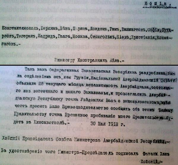 Radio telegram sent on 30 May 1918 by Fatali Khan Khoyski to world’s states (to Istanbul, Berlin, Vienna, Paris, London, Rome, Washington, Sofia, Bucharest, Tehran, Madrid, Moscow, Stockholm, Tokyo and other capitals.) on the creation of the Azerbaijan Democratic Republic.